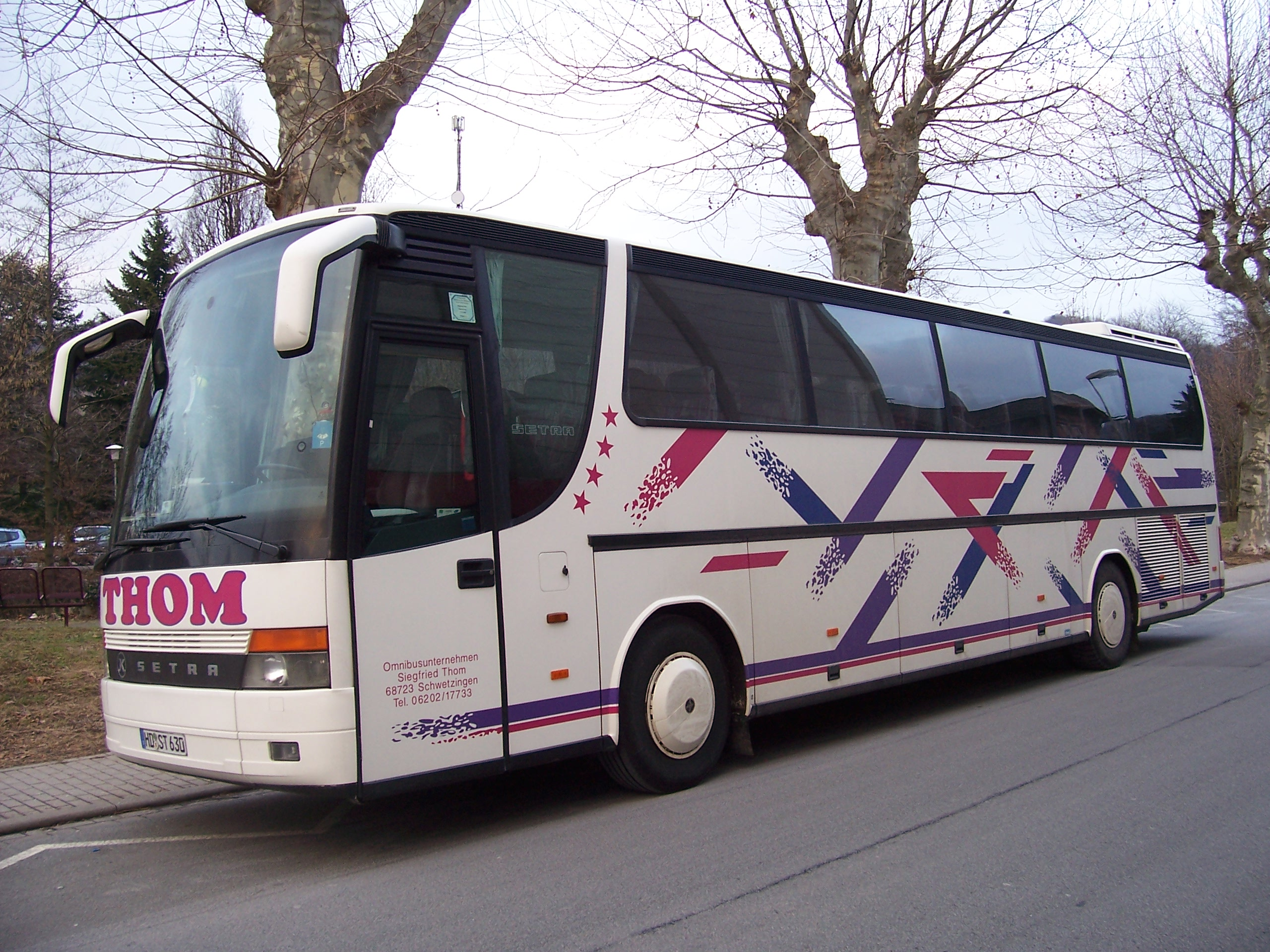 A Setra bus in Weinheim an der Bergstraße, Germany My own photo